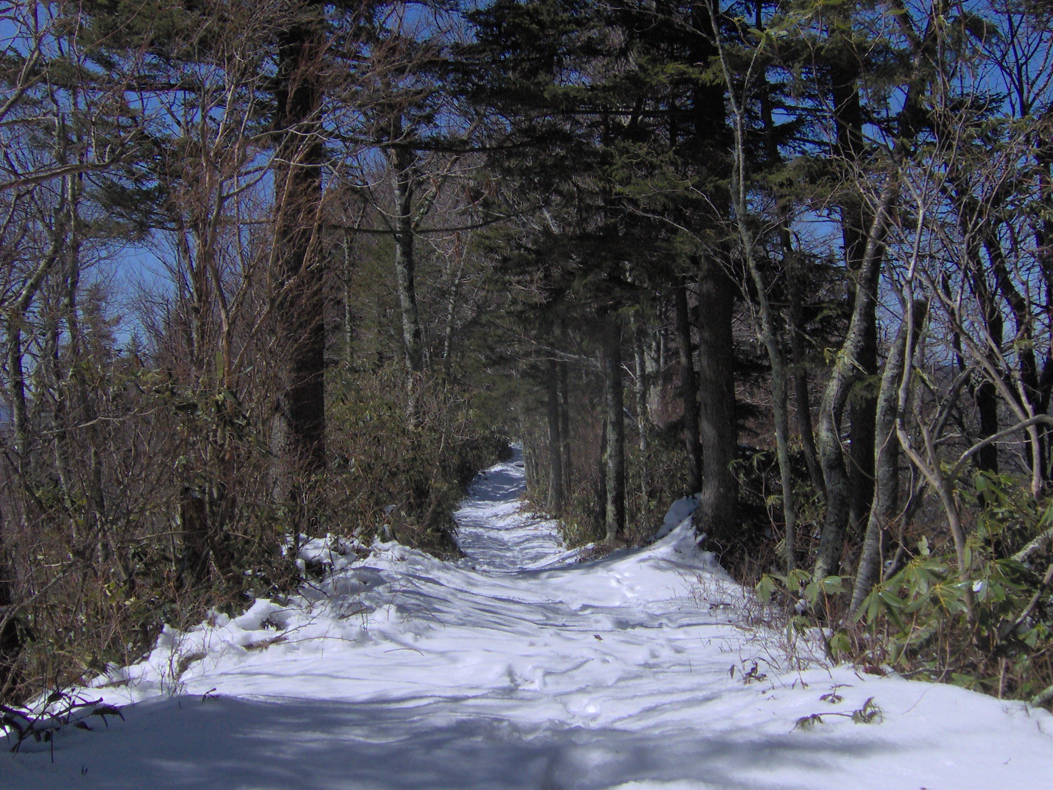 The Sugarland Mountain Trail crossing one of the many narrow "backbone" formations, appx. 9 miles (14 km) from the Fighting Creek Gap trailhead. The snow on the left will eventually melt and drain into Little River, approximately 2000 feet below. The snow on the right will end up in the Little Pigeon River watershed.